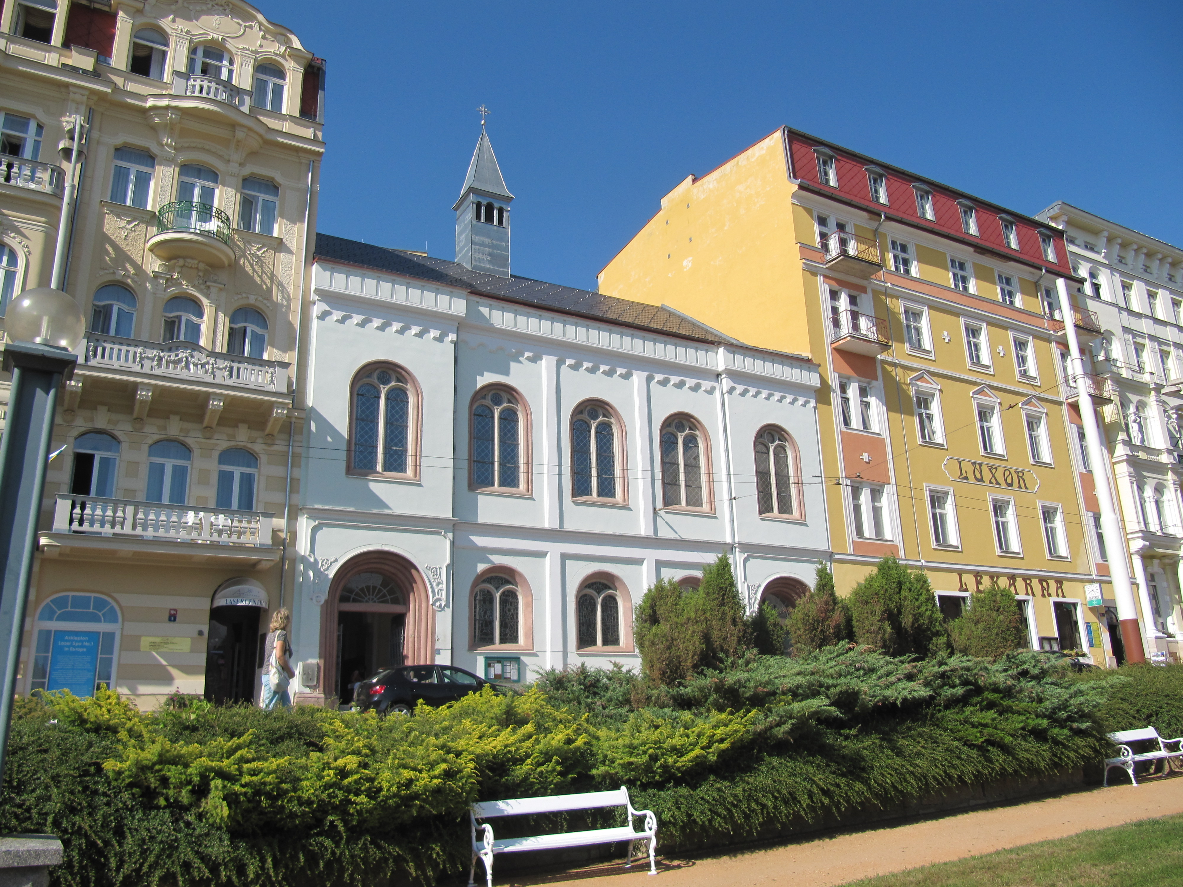 Mariánské Lázně, Cheb District, Czech Republic. Evangelic church.